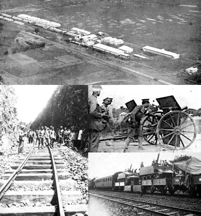 Top: Don Mueang railway station and airfield. Right upper: Government's troops firing canon from Pradipat Road in Bangkok. Right lower: Government's military train. Left: km 143.6 near Hin Lap Station.